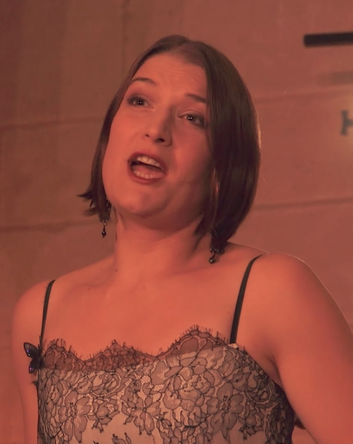 French operatic coloratura mezzo-soprano Isabelle Druet singing "Mes yeux" from André Campra's opera L’Europe Galante.